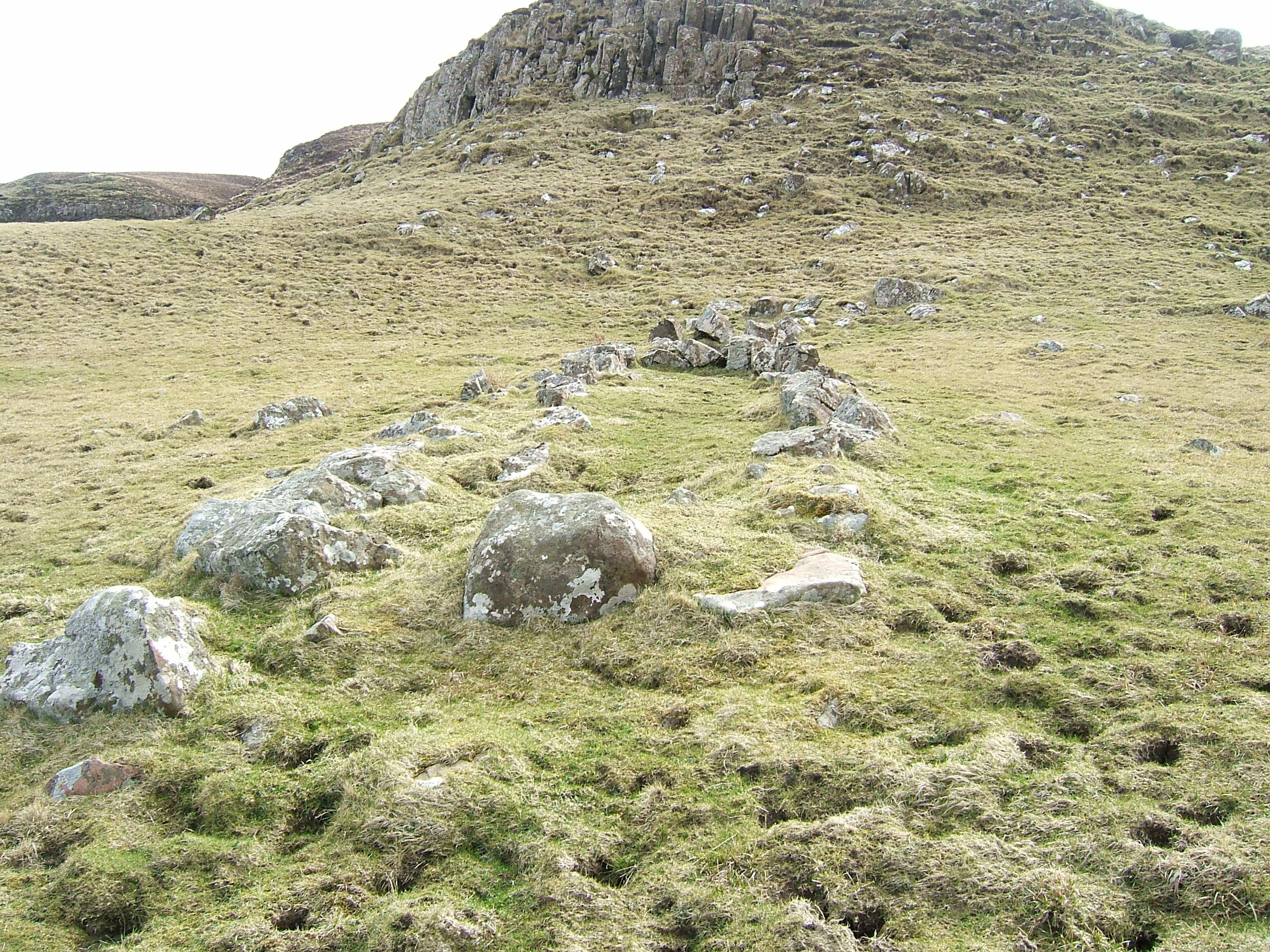 Uamh Rìgh Lochlainn, grave of the king of Norway, Canna Island